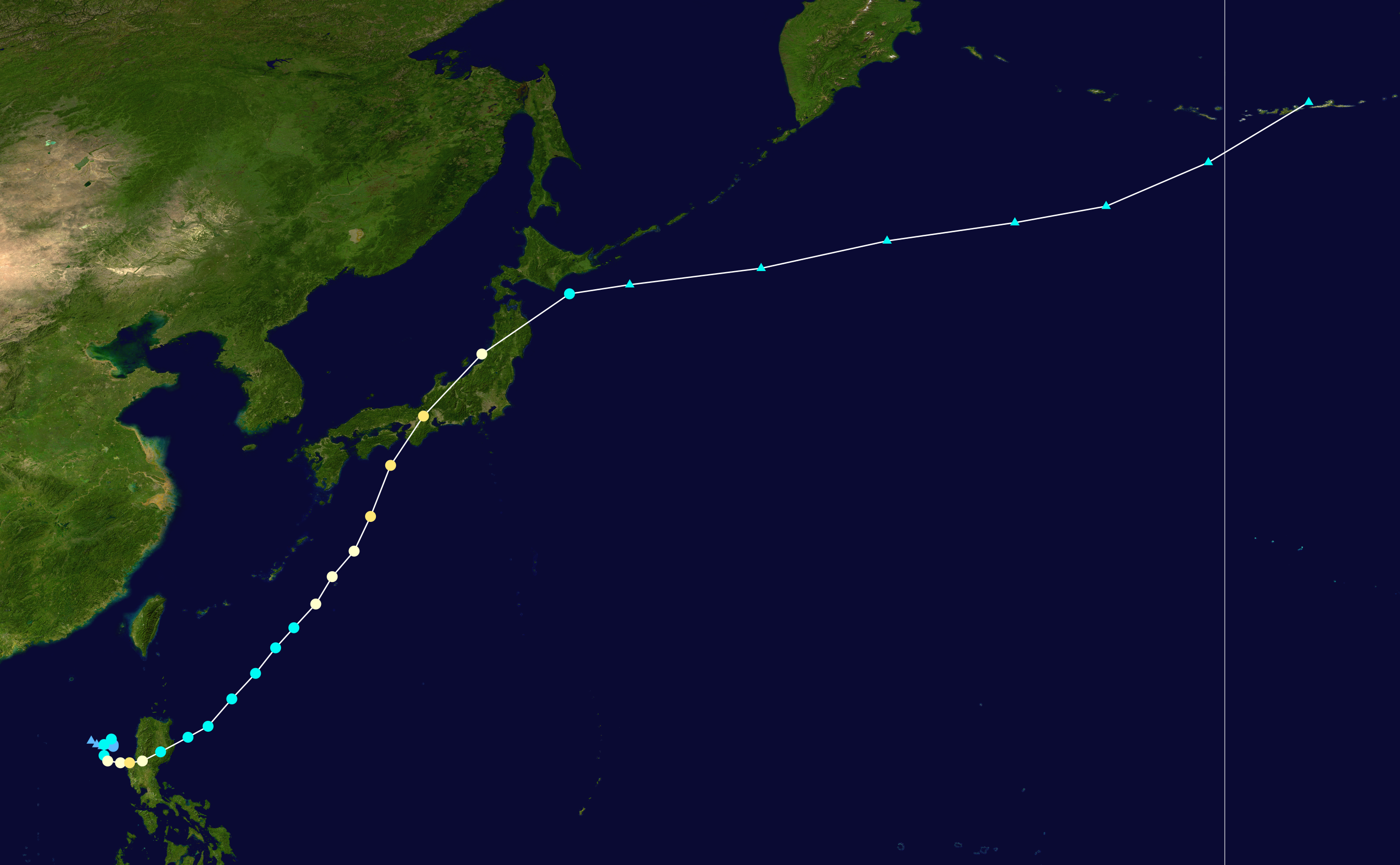 Track map of Typhoon Vicki of the 1998 Pacific typhoon season. The points show the location of the storm at 6-hour intervals. The colour represents the storm's maximum sustained wind speeds as classified in the Saffir–Simpson scale (see below), and the shape of the data points represent the nature of the storm, according to the legend below. Saffir–Simpson scale Tropical depression≤38 mph≤62 km/h Category 3111–129 mph178–208 km/h Tropical storm39–73 mph63–118 km/h Category 4130–156 mph209–251 km/h Category 174–95 mph119–153 km/h Category 5≥157 mph≥252 km/h Category 296–110 mph154–177 km/h Unknown Storm type Tropical cyclone Subtropical cyclone Extratropical cyclone / Remnant low / Tropical disturbance / Monsoon depression